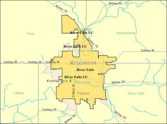 River Falls, Wisconsin